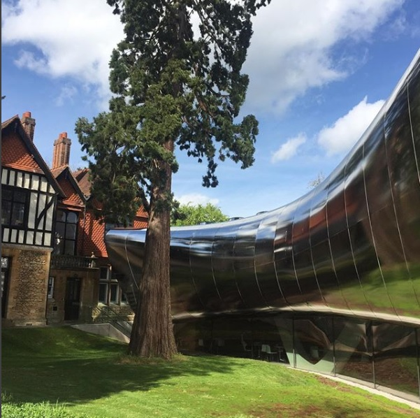 Image of Investcorp Building, St Antony's College, 2018; Zaha Hadid designed.